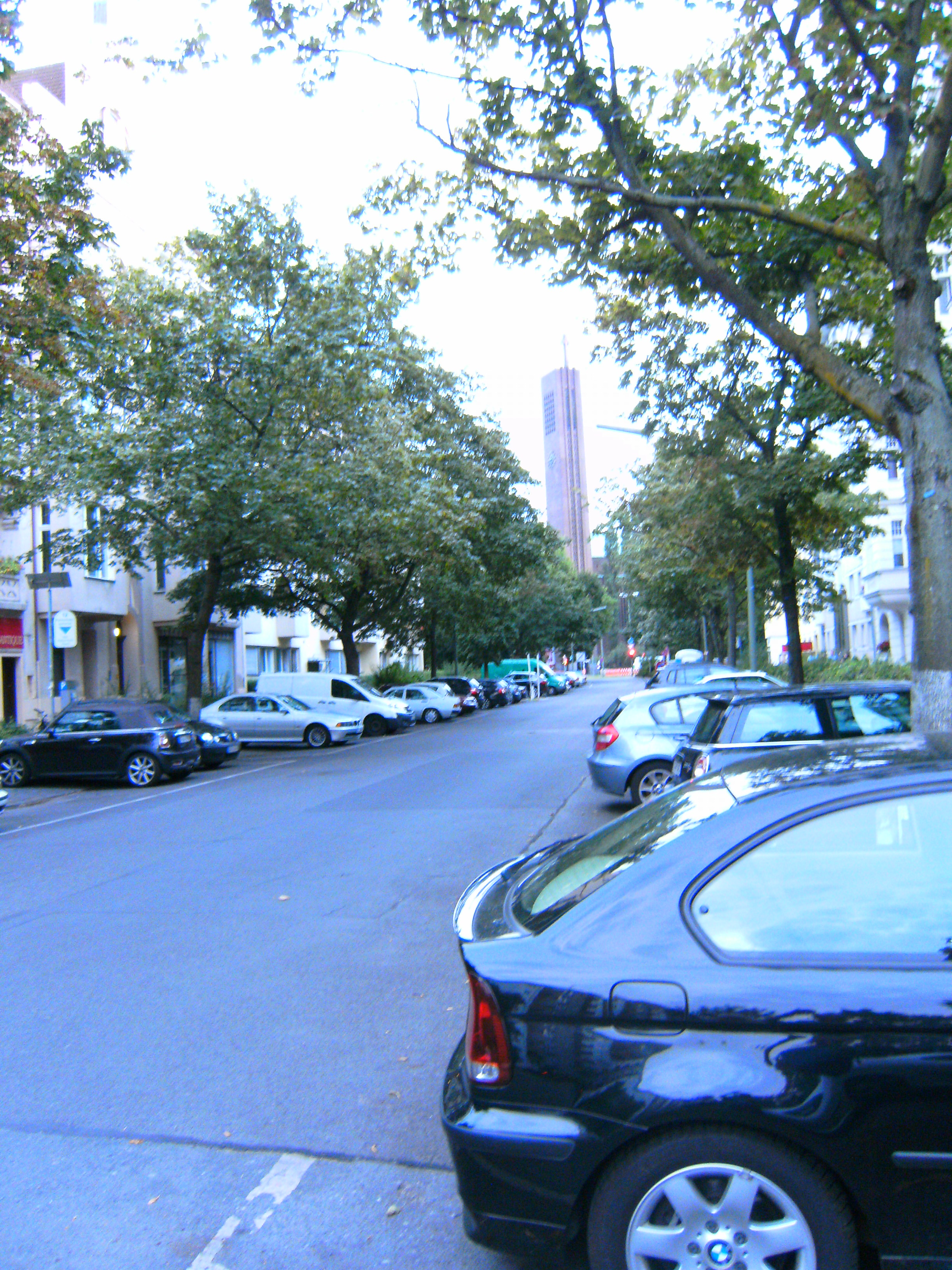 Fasanenstraße in Berlin from Pariser Straße to Hohenzollerndamm. Far away the church tower of the Kirche am Hohenzollernplatz.